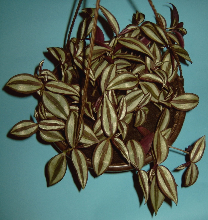 Tradescantia pendula, stem cuttings with shoots in a hanging flowerpot five days after planting